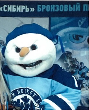 Mascot HC Sibir Novosibirsk